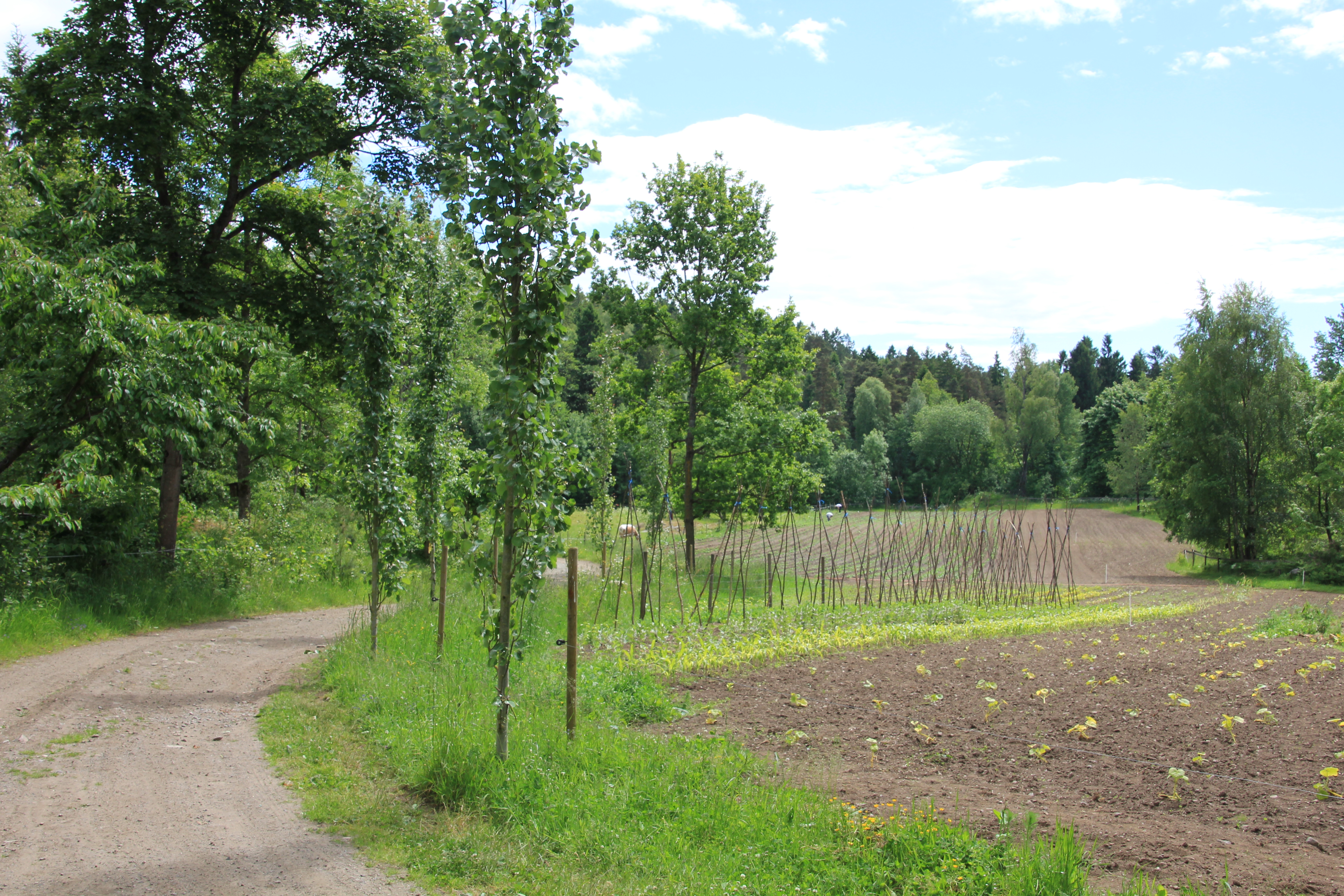 Biodynamical agricultural landscape from Ramme Gård, Hvitsten, Vestby, Akershus, Norway.